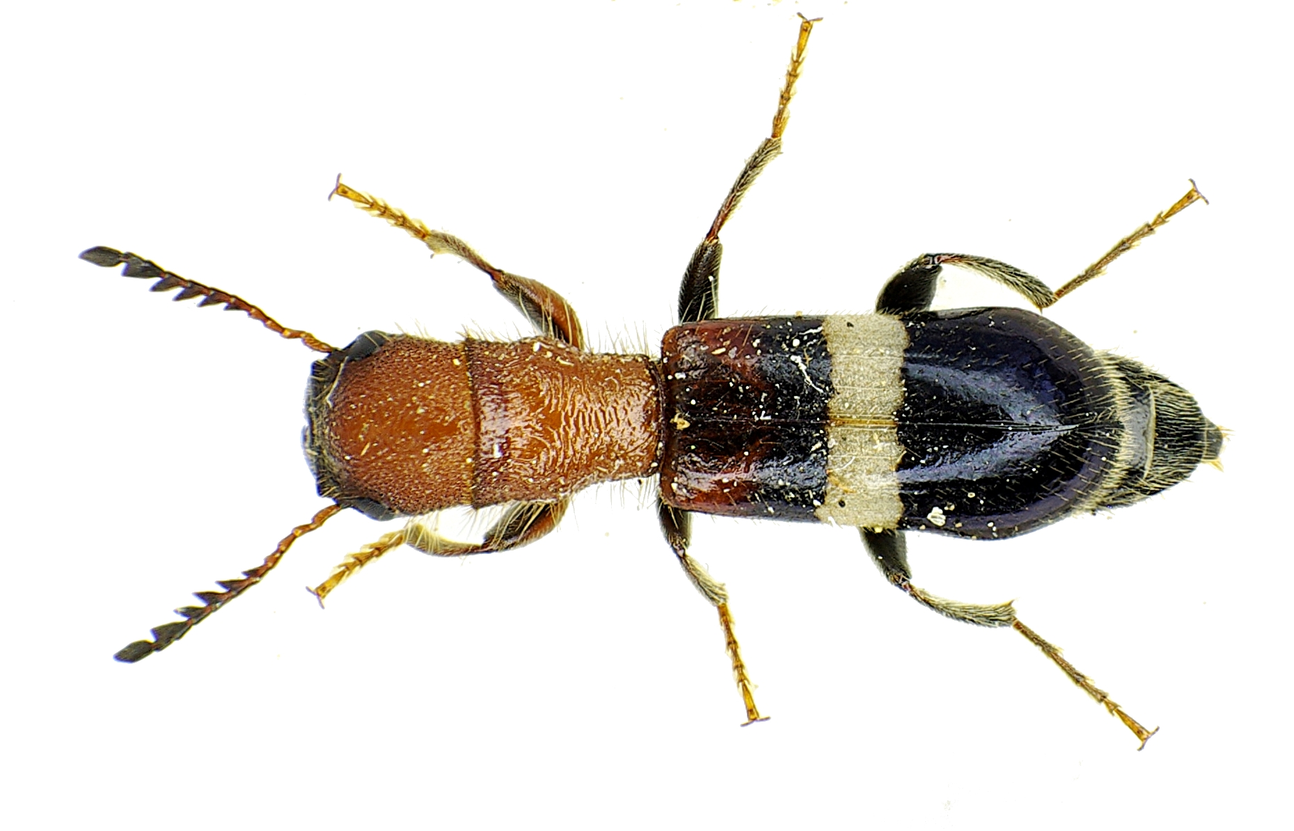 Denops albofasciatus